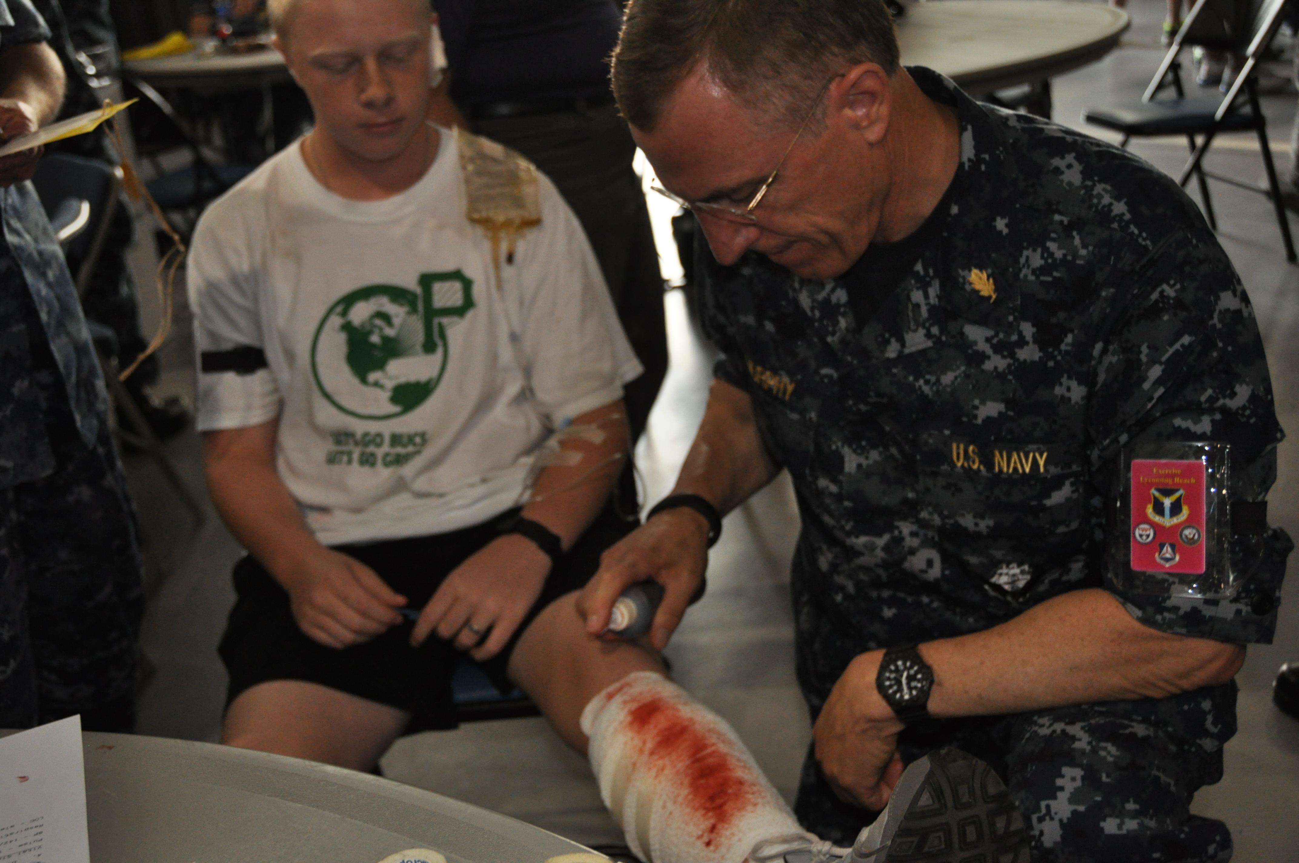 Lt. Cmdr. Tim Murphy, psychologist with the Navy Reserve Medical Service Corps at Walter Reed National Military Medical Center at Bethesda, sprays fake blood on the bandages of a Civil Air Patrol Cadet as part of preparation for a National Disaster Medical System Exercise at the Pittsburgh International Airport Air Reserve Station, July 12, 2014. (U.S. Air Force photo by Senior Airman Marjorie A. Bowlden)